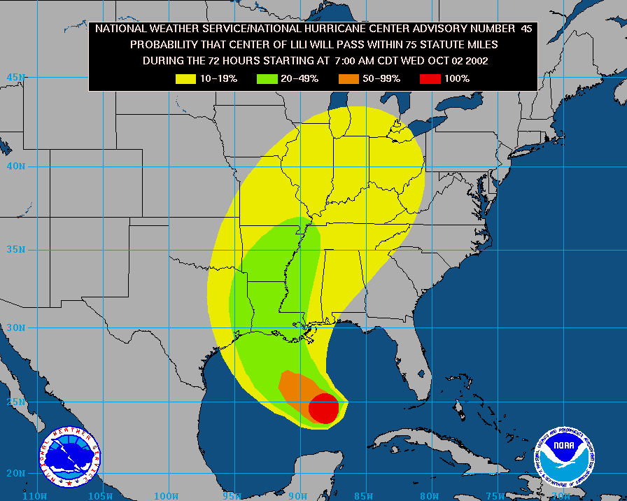 Hurricane Lili (2002) strike probabilities while in the south-central Gulf of Mexico